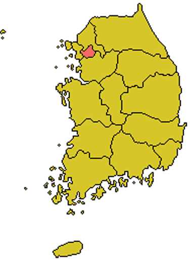 Archdiocese of Seoul